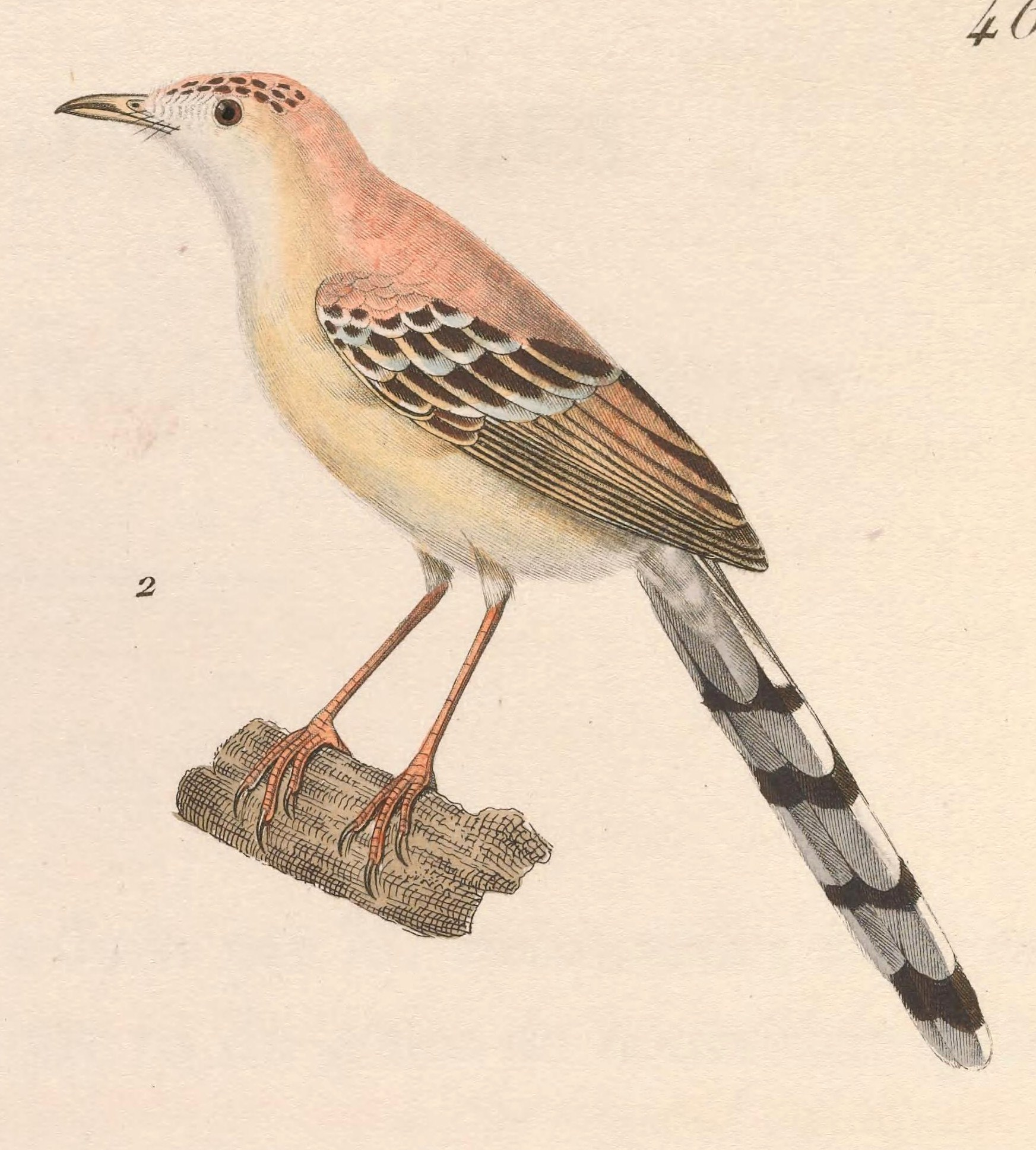 « Malurus clamans » = Spiloptila clamans (Cricket Warbler)